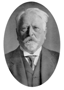 Otto Küstner (1829–1931), German gynaecologist